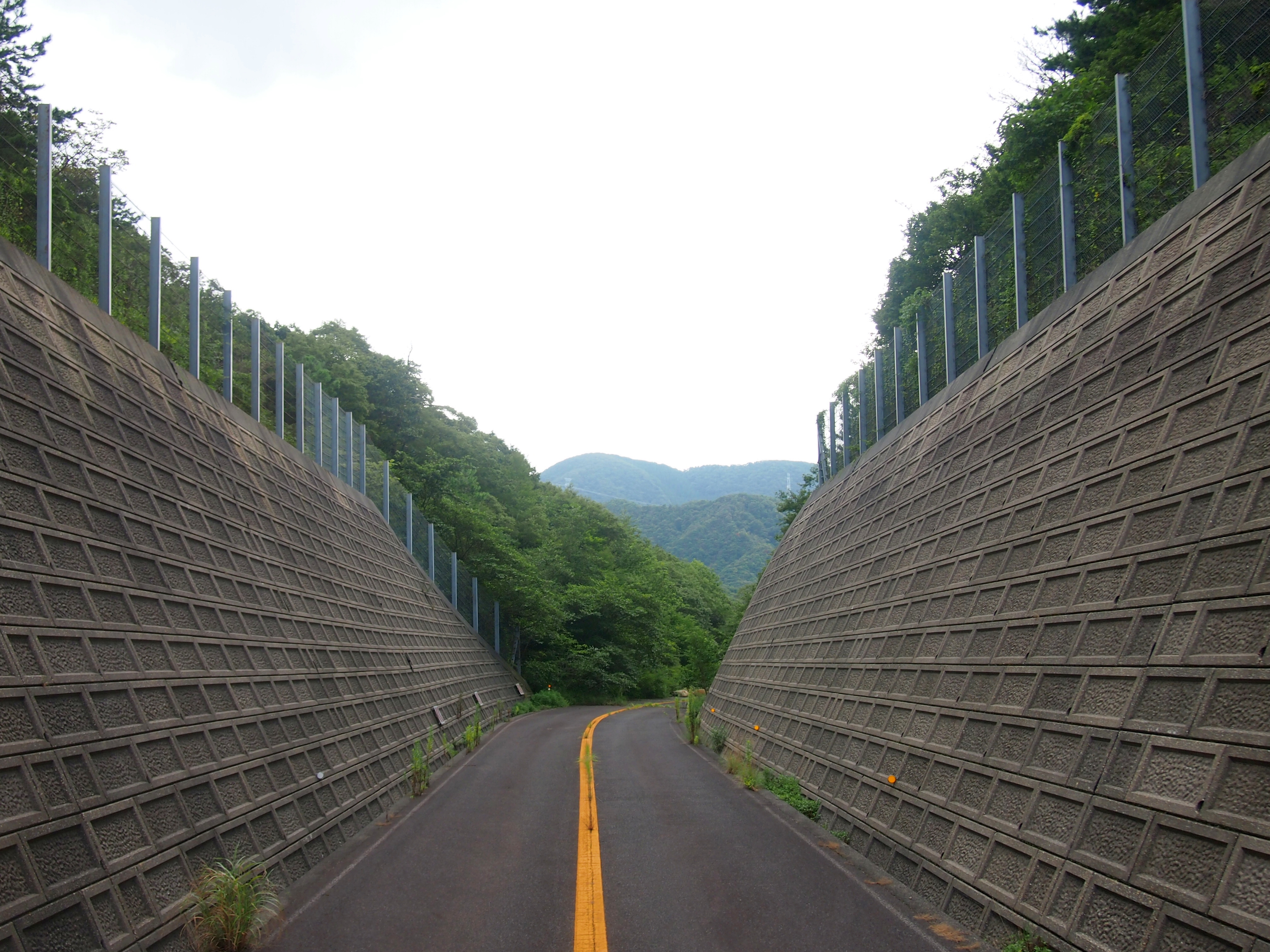 Majyo Pass is the boundary between Tsuruga City and Mihama Town in Fukui.